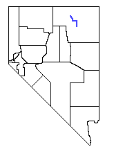 Location of the North Fork of the Humboldt River within Nevada.